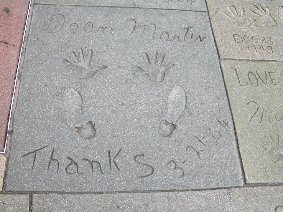 Dean Martin's footprints at the Grauman's Chinese Theatre, Los Angeles (California)